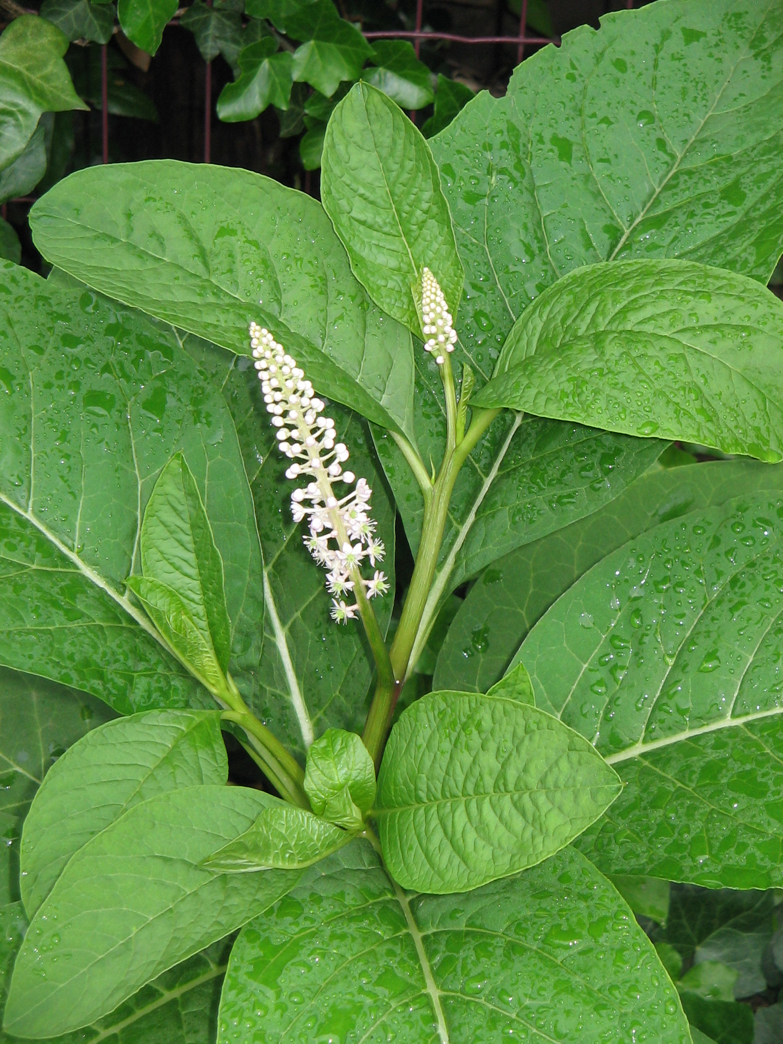 Phytolacca acinosa